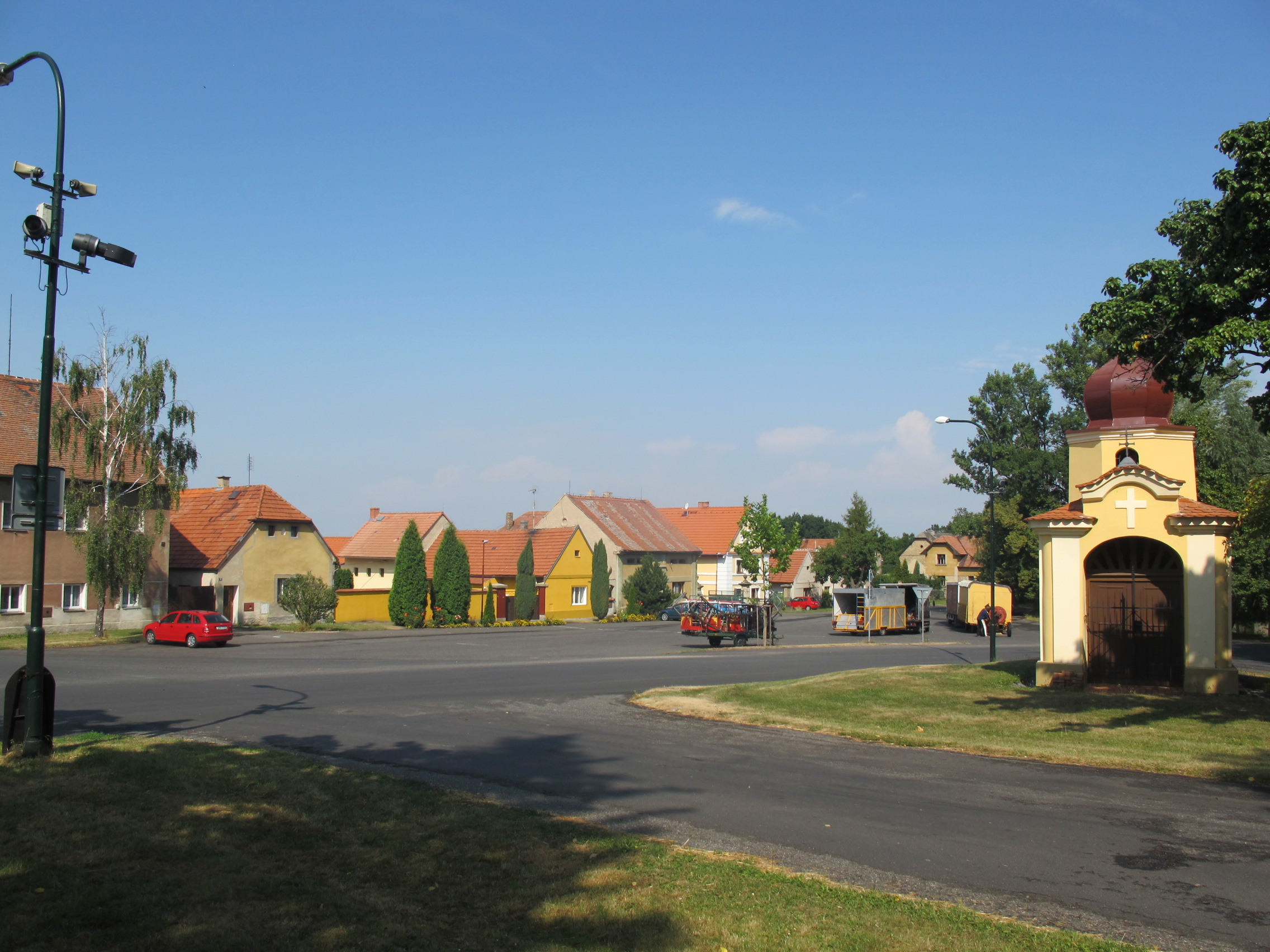 Village square in Smolnice